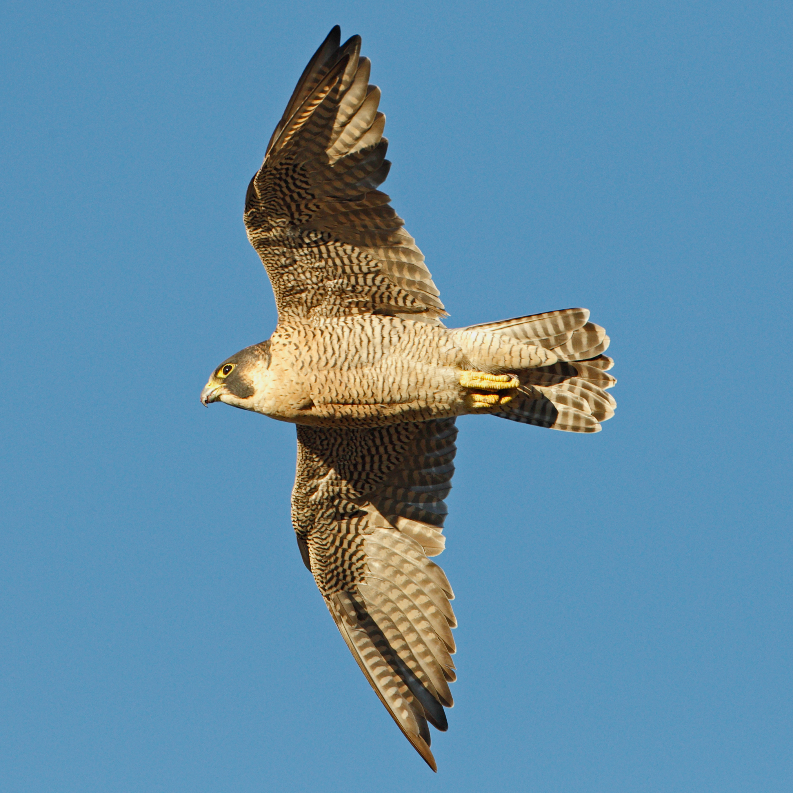 Peregrine falcon in flight